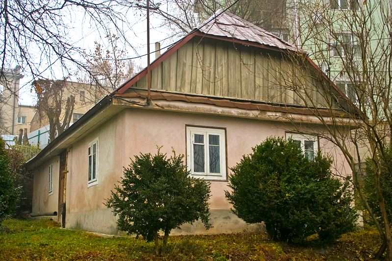 former jewish house